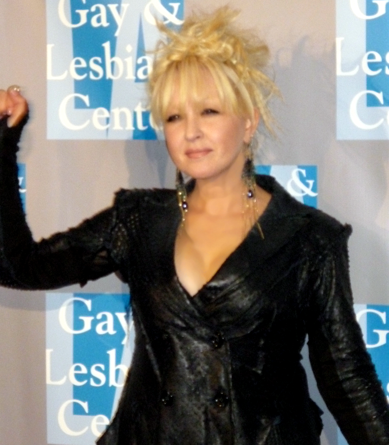 Cyndi Lauper 2008.